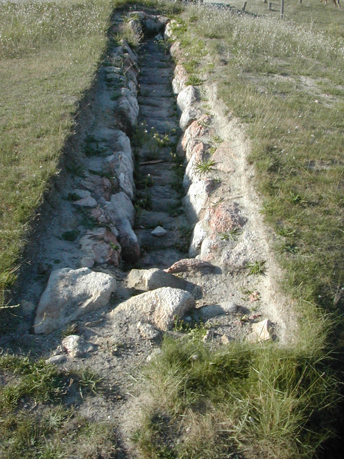 Lime kiln. Digital photo taken at Meneham, a crossroads in the Kerlouan commune, Finistère, France. Old lime kiln type, used to extract the sodium carbonate from dried wrack (see Image:Wrack dried dscn1886.jpg). This lime kiln is sometimes used during folk fete.